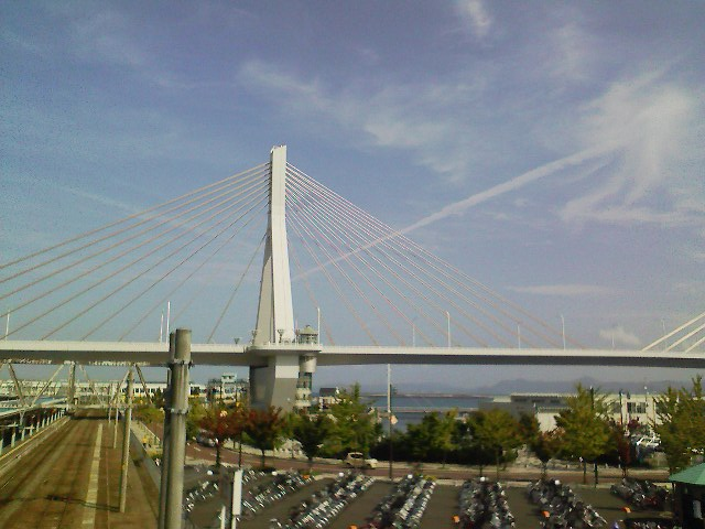 青森ベイブリッジ。The Baybridge in Aomori, Japan.